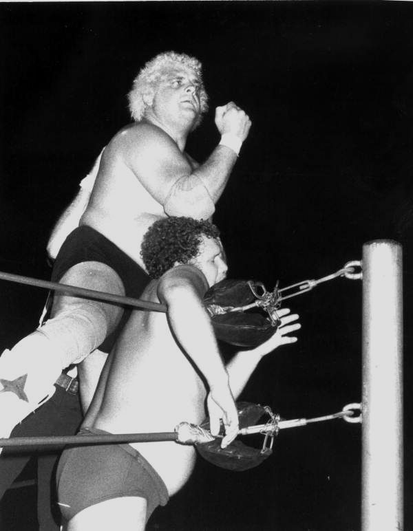 Dusty Rhodes gives the Bionic Elbow to Harley Race